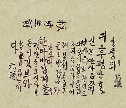 A latter of King Jeongjo.